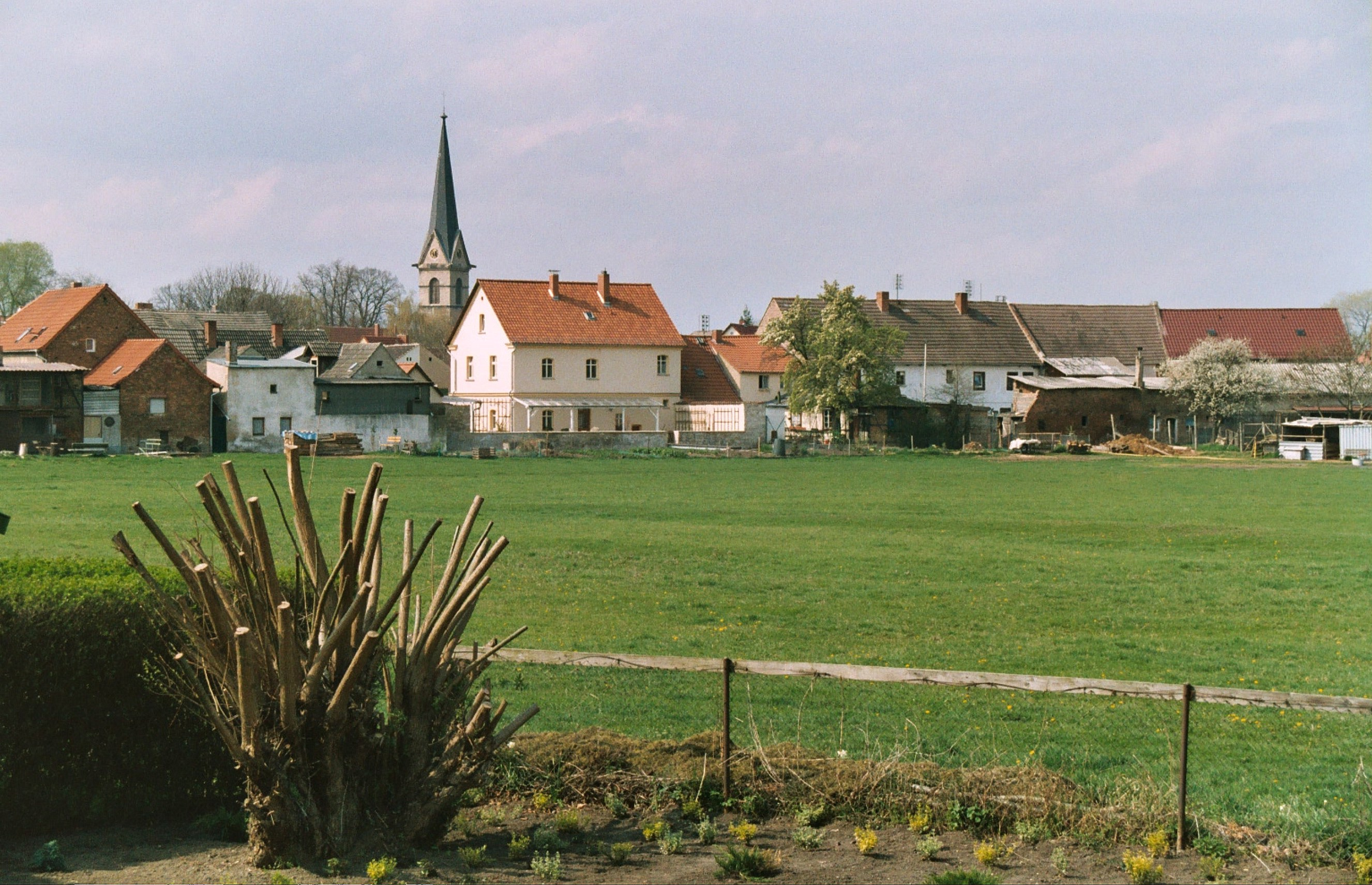 Gatersleben (Seeland), view to the village